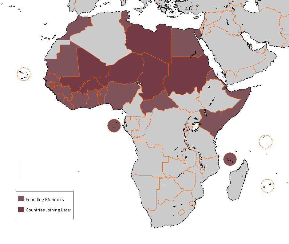 Location of the Community of Sahel Saharan States (or CEN-SAD